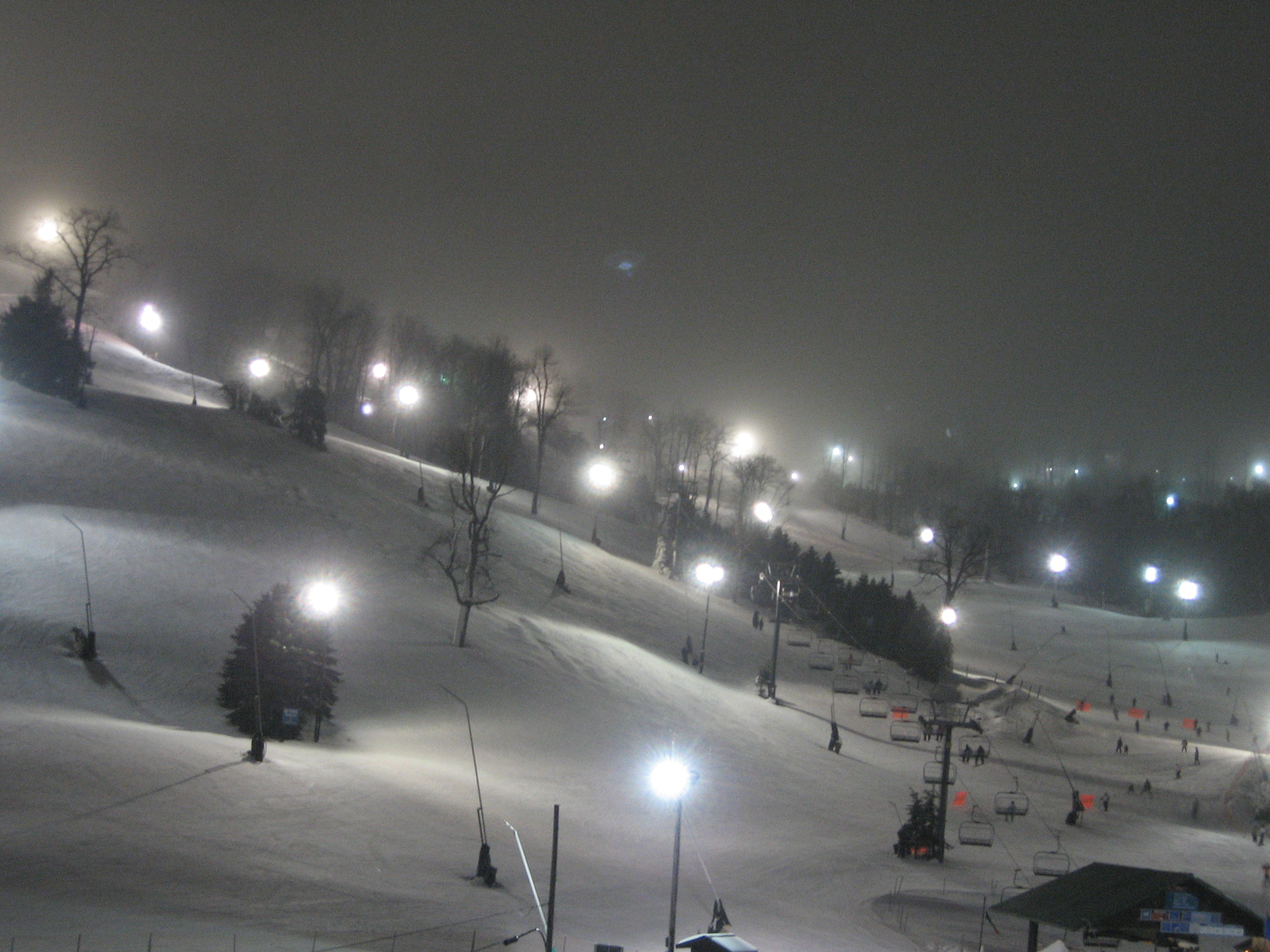 Night skiing at Seven Springs Mountain Resort